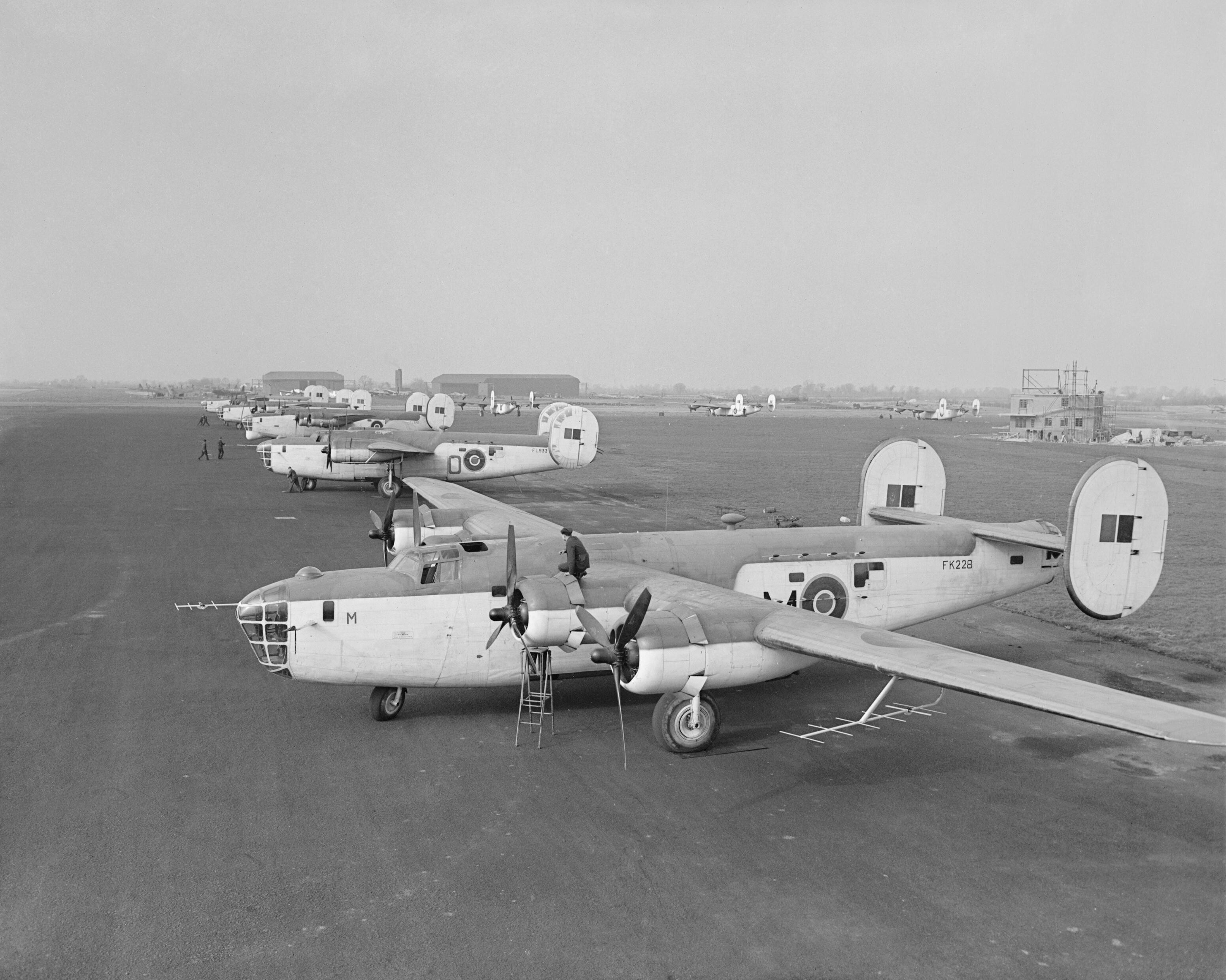 American Aircraft in Royal Air Force Service 1939-1945- Consolidated Model 32 Liberator. Liberator GR Mark IIIs, FK228 ‘M’ and FL933 ‘O’, of No. 120 Squadron RAF, lined up with other aircraft at Aldergrove, County Antrim. The third aircraft in line is a GR Mark V, FL952, of No. 86 Squadron RAF. The Mark IIIs are equipped with ASV Mark II anti-submarine radar, while FL952 carries centrimetric ASV radar in a radome under the nose.